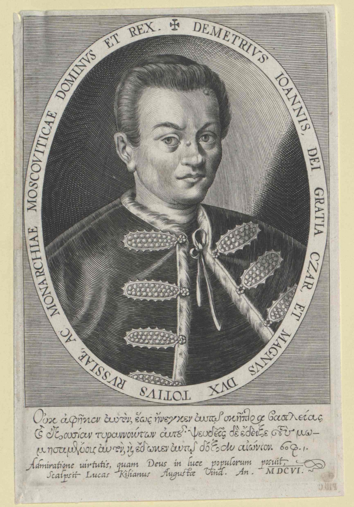 False Dmitriy I